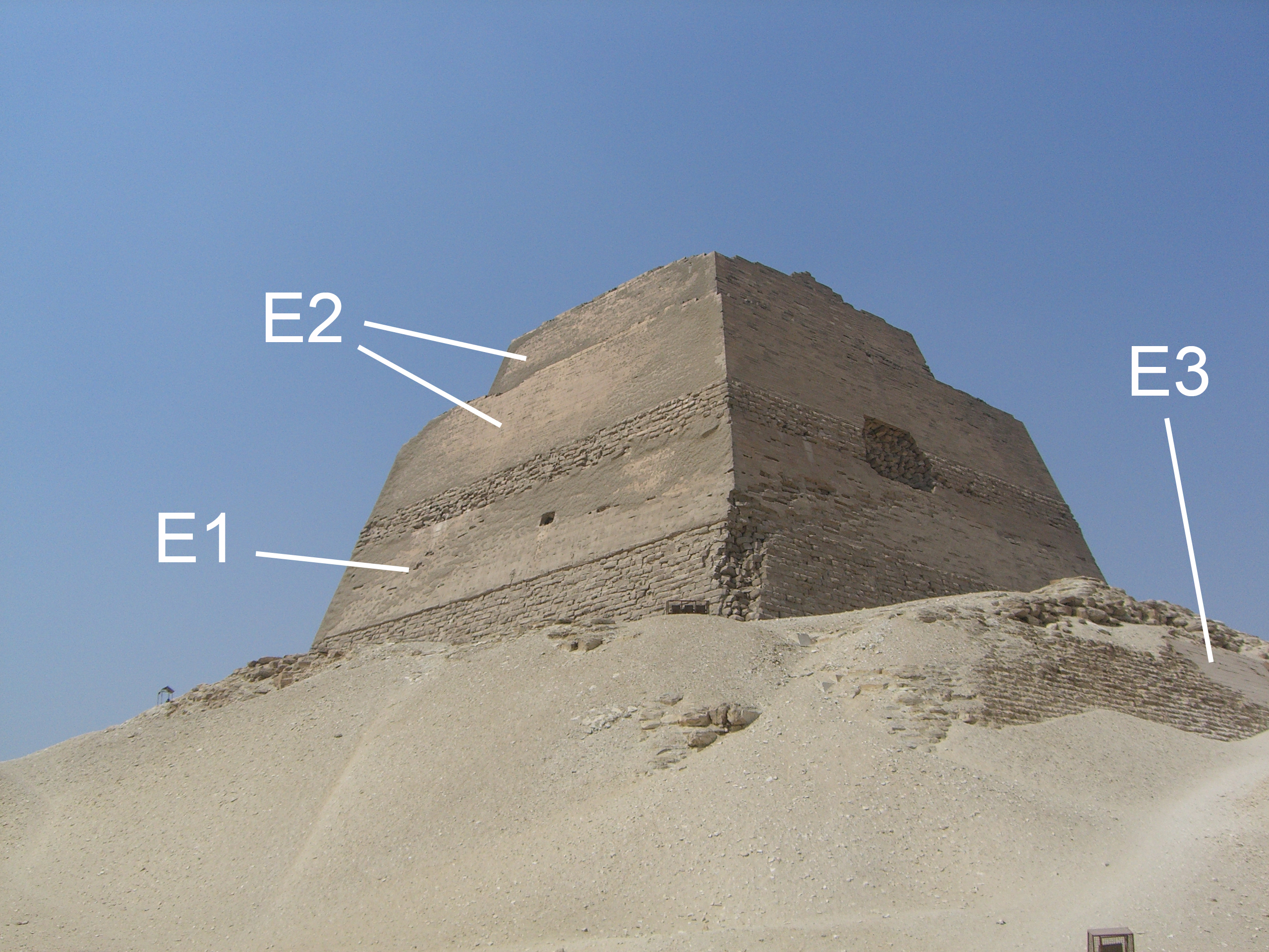 The three building phases of the Meidum pyramid (E1, E2 and E3) are visible in this photograph